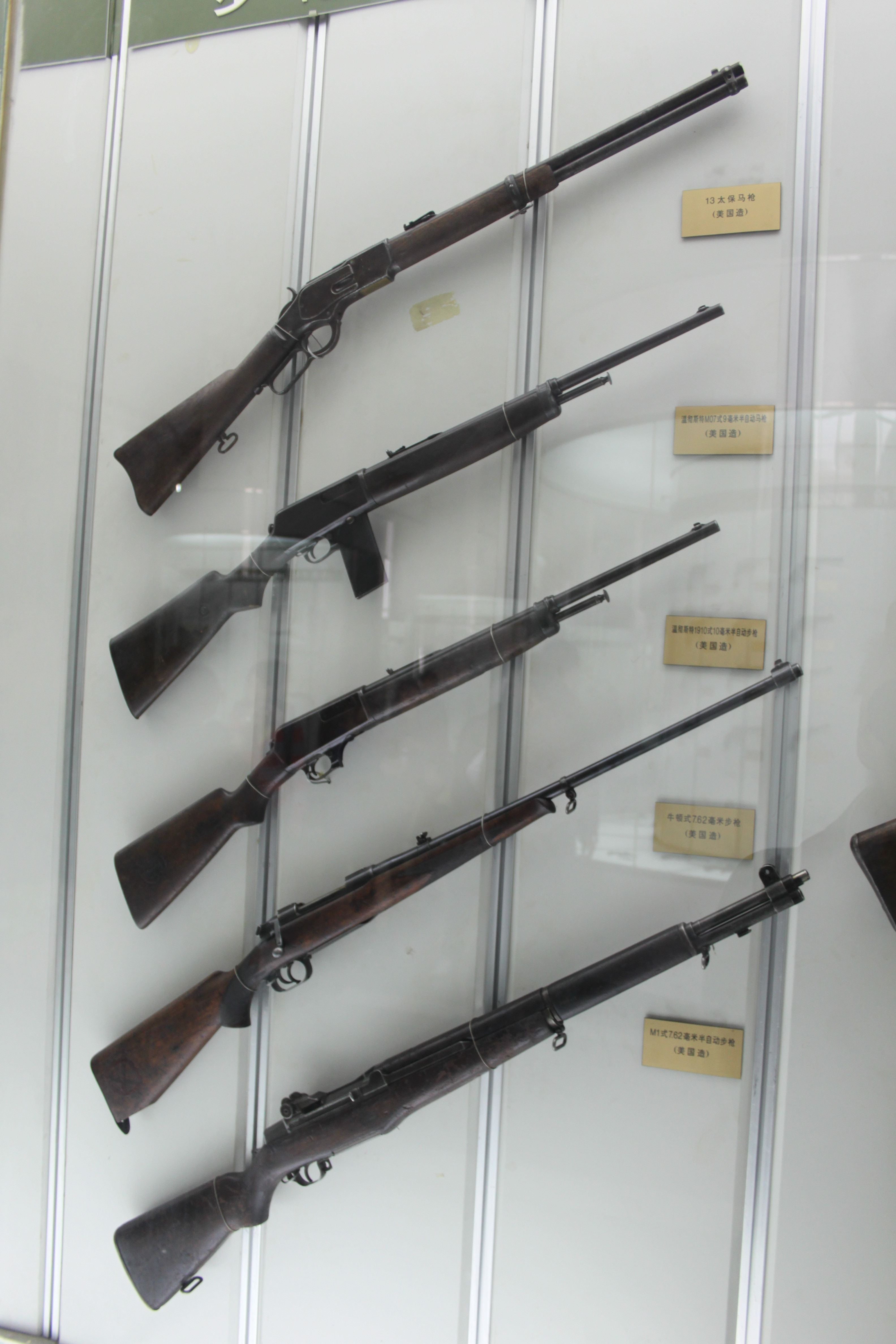 Military Museum: Modern Weapons, Small Arms Gallery. Complete indexed photo collection at .